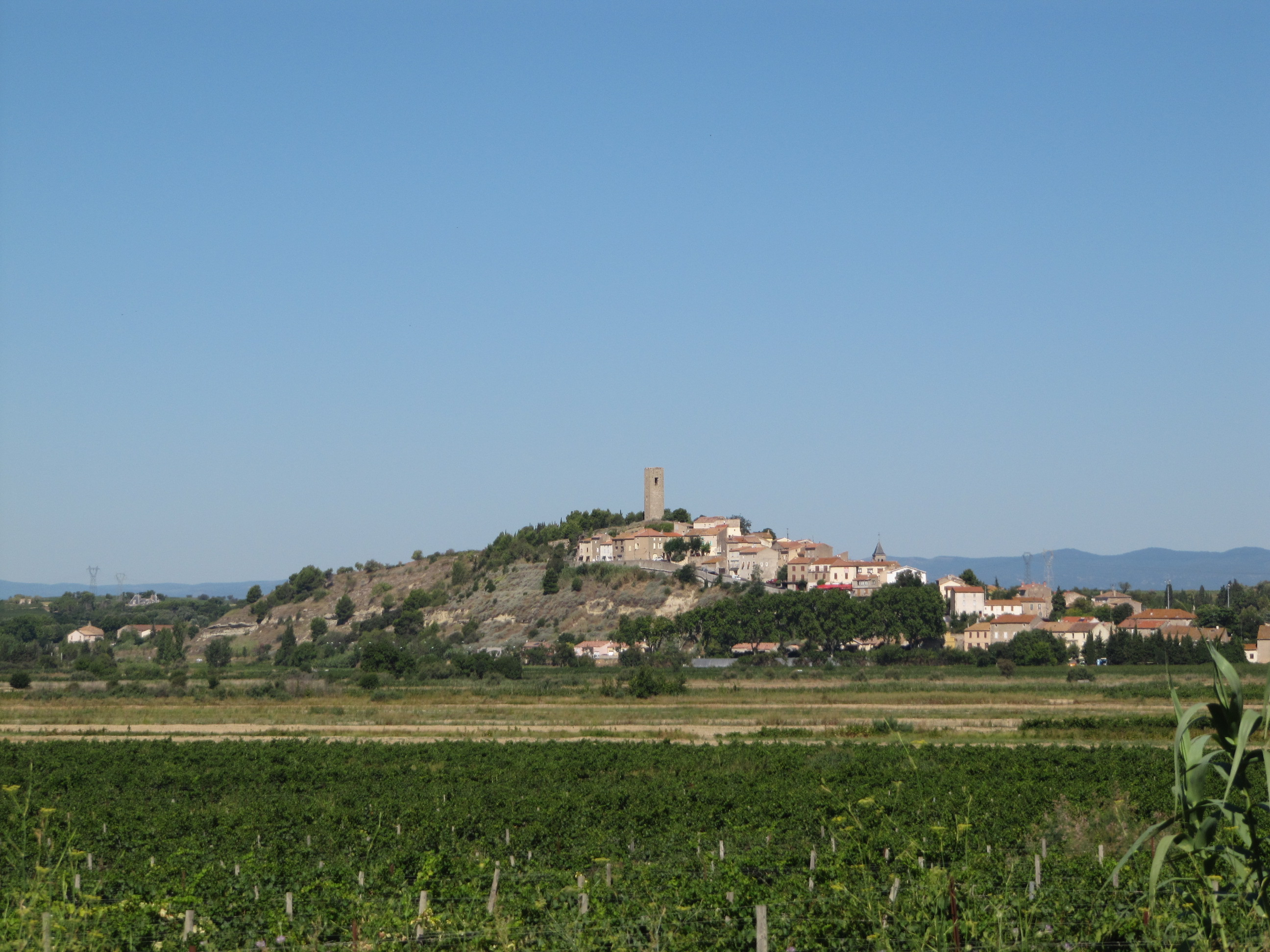 Montady (Hérault)